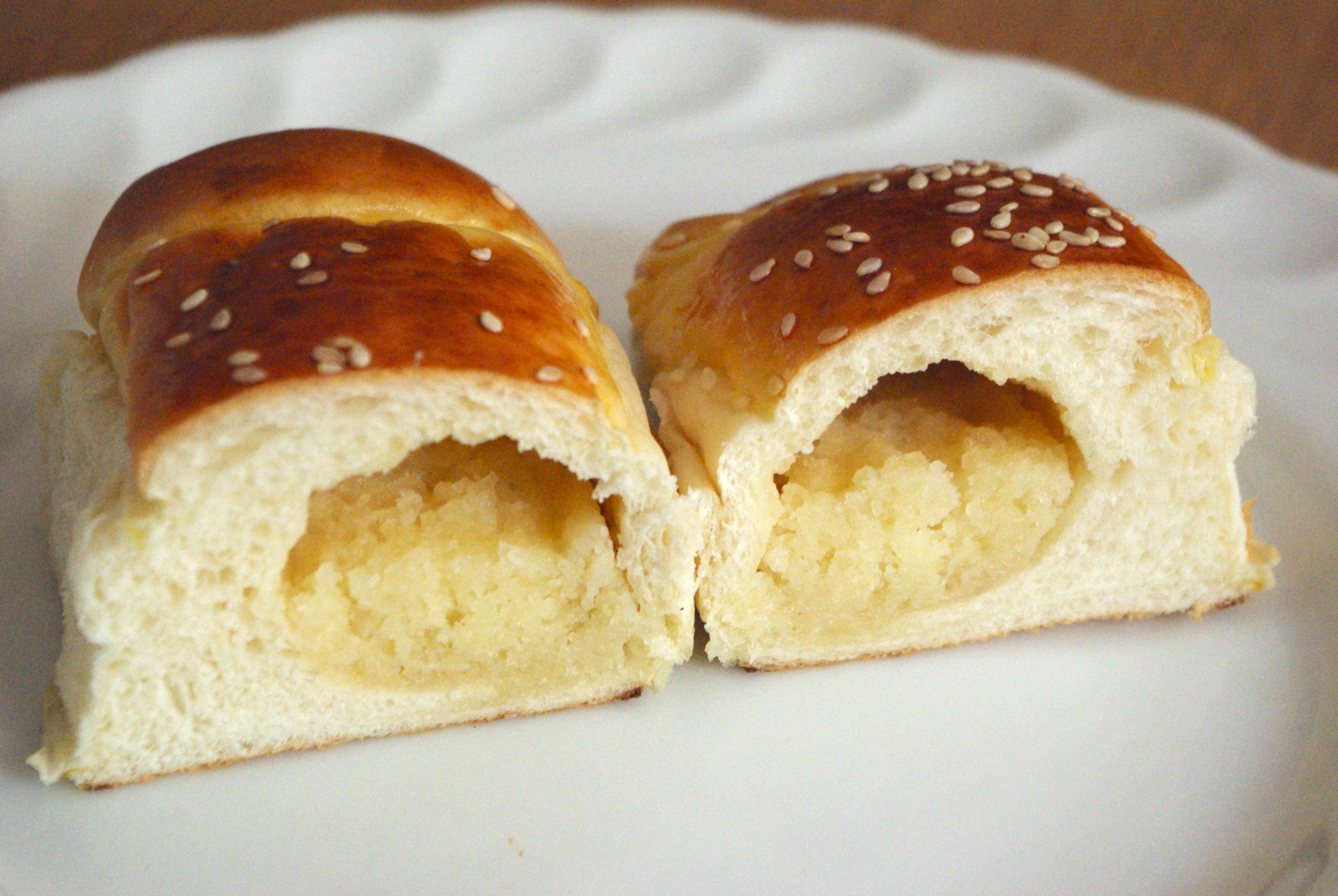 A typical cocktail bun from Hong Kong, cut cross-wise to show the sweet coconut filling.